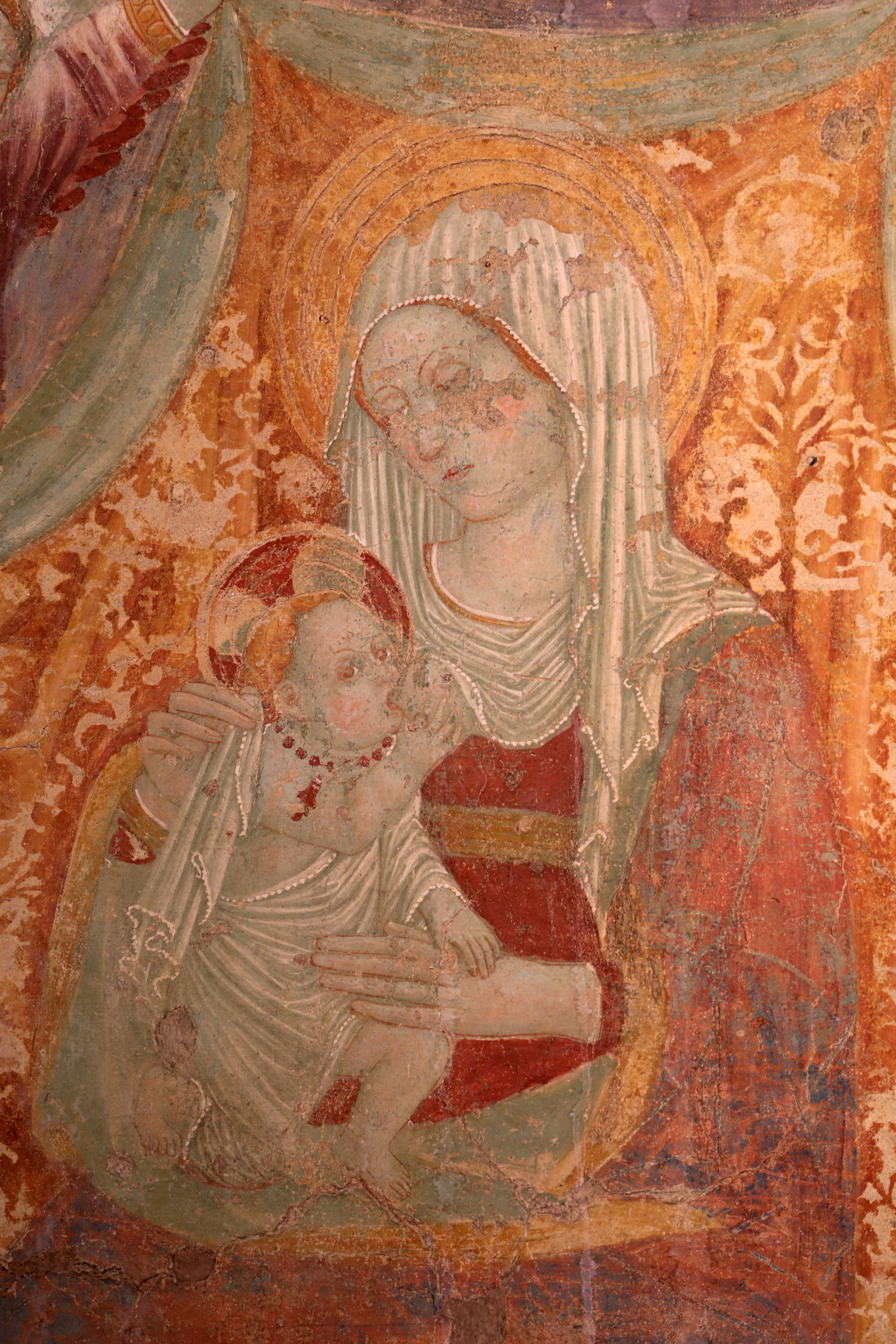 Capolavori Sibillini (2017-2018 exhibition)